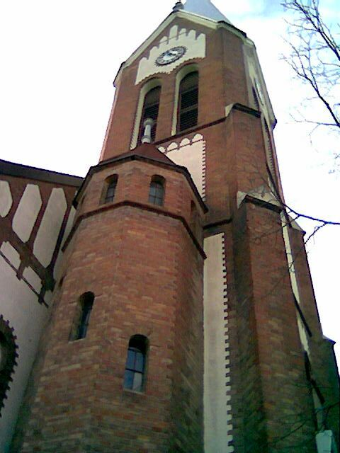 Rákoscsaba - Budapest Református Templom (photo by N3220 phone) —VillanyGabi 15:25, 25 February 2006 (UTC)